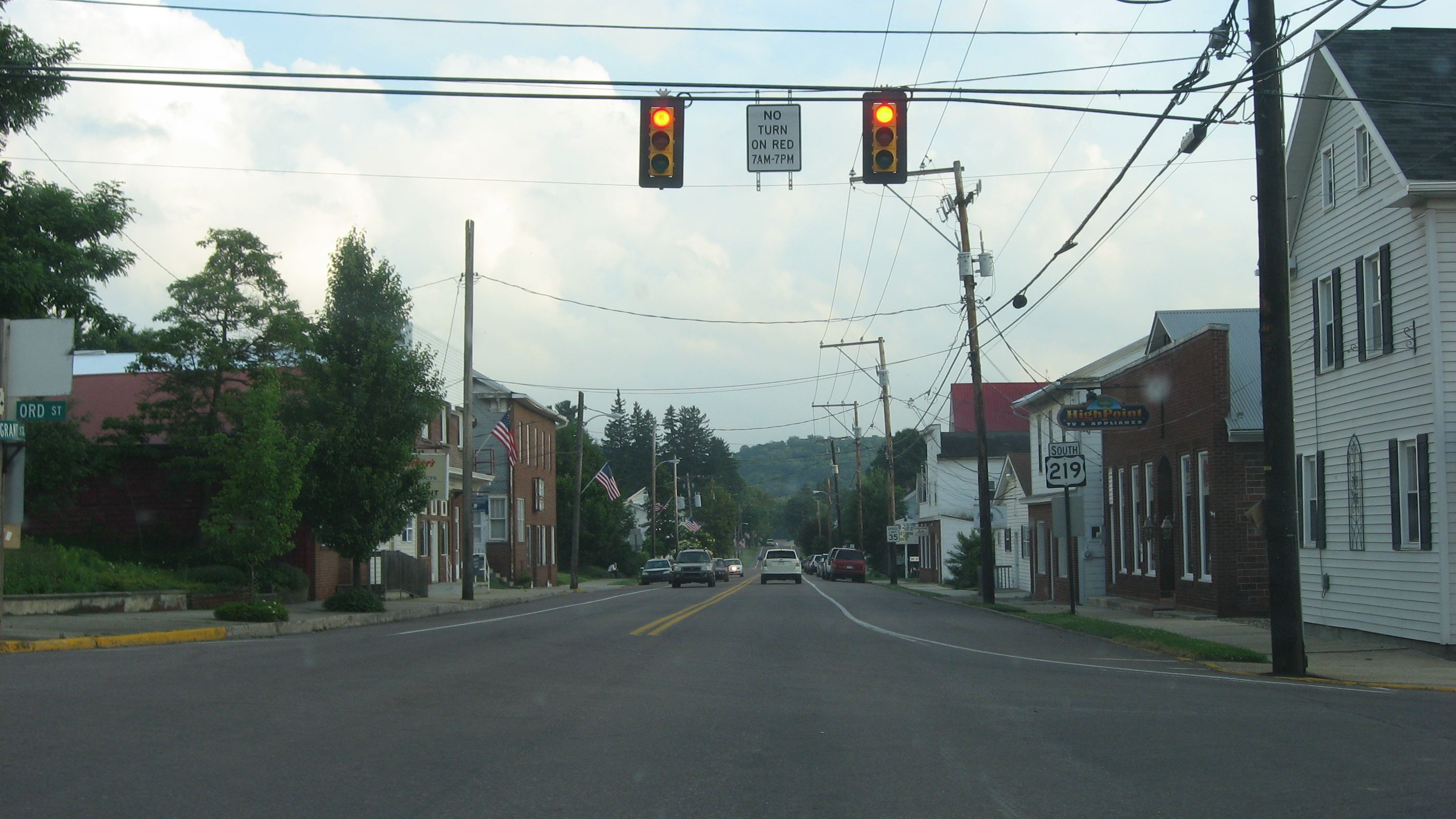 Looking southward on Grant Street (U.S. Route 219) from the Ord Street (Route 669) intersection in Salisbury, Pennsylvania, United States.